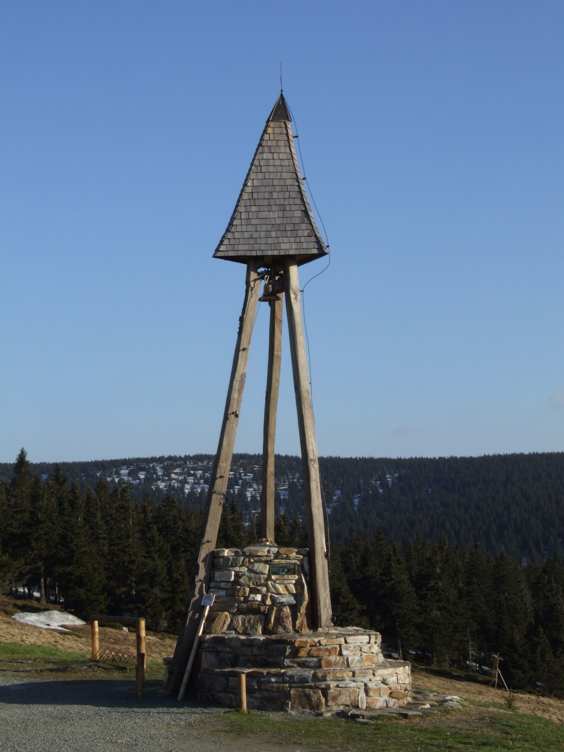 Wooden bell tower near Švýcarna hostel in Jeseniky moutains (Gesenke)